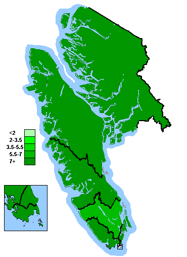 Map made by uploader (User:Earl Andrew); see [1] (question about source) and [2] (response).